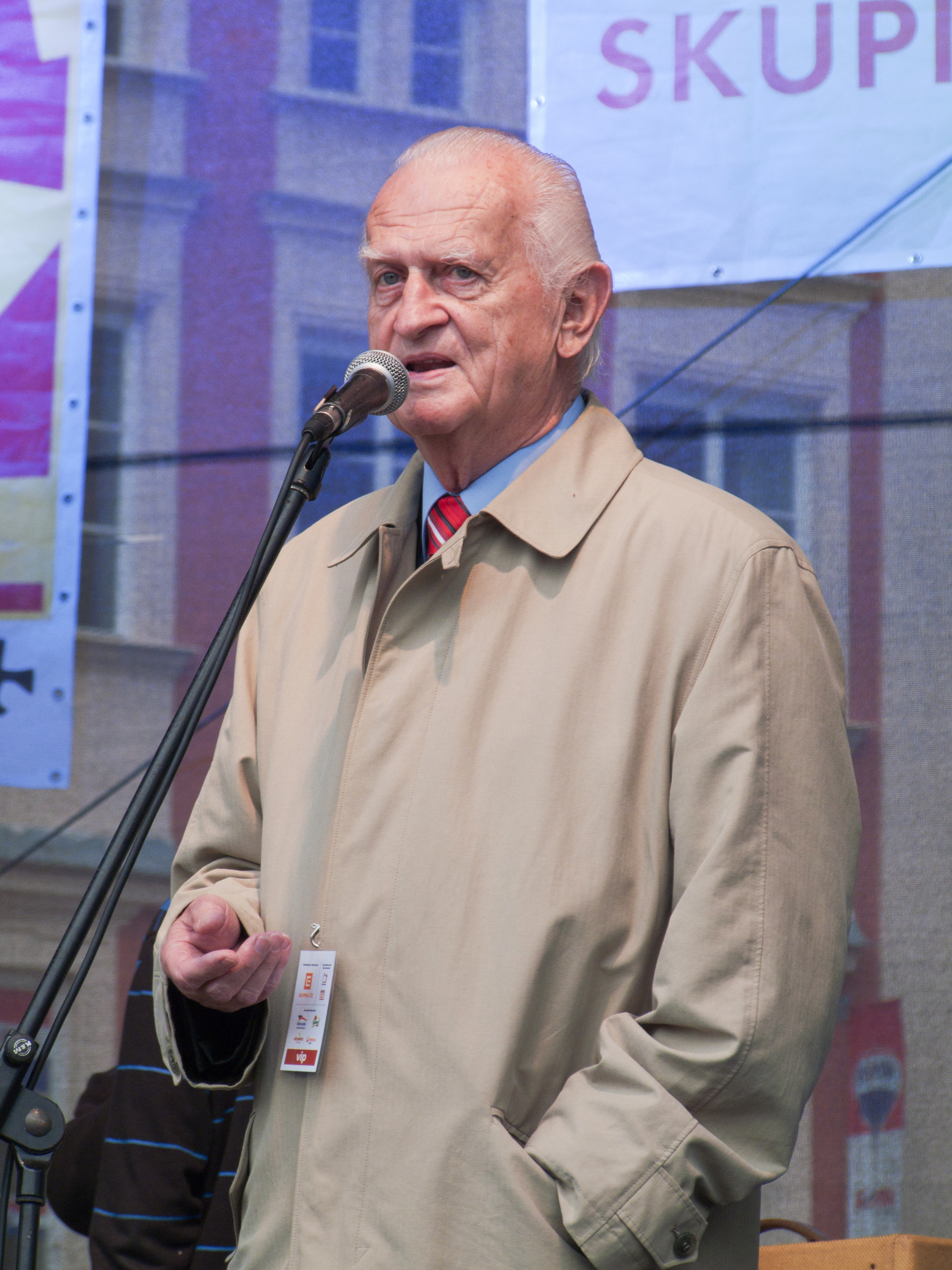 Miroslav Tetter, 3rd and 5th mayor of České Budějovice, Czech Republic, speaking at Bohemia Jazz Fest 2010